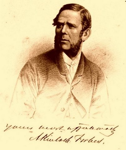 Alexander Kinloch Forbes (1821–1865) was a scholar of the Gujarati language and a colonial administrator in British India.